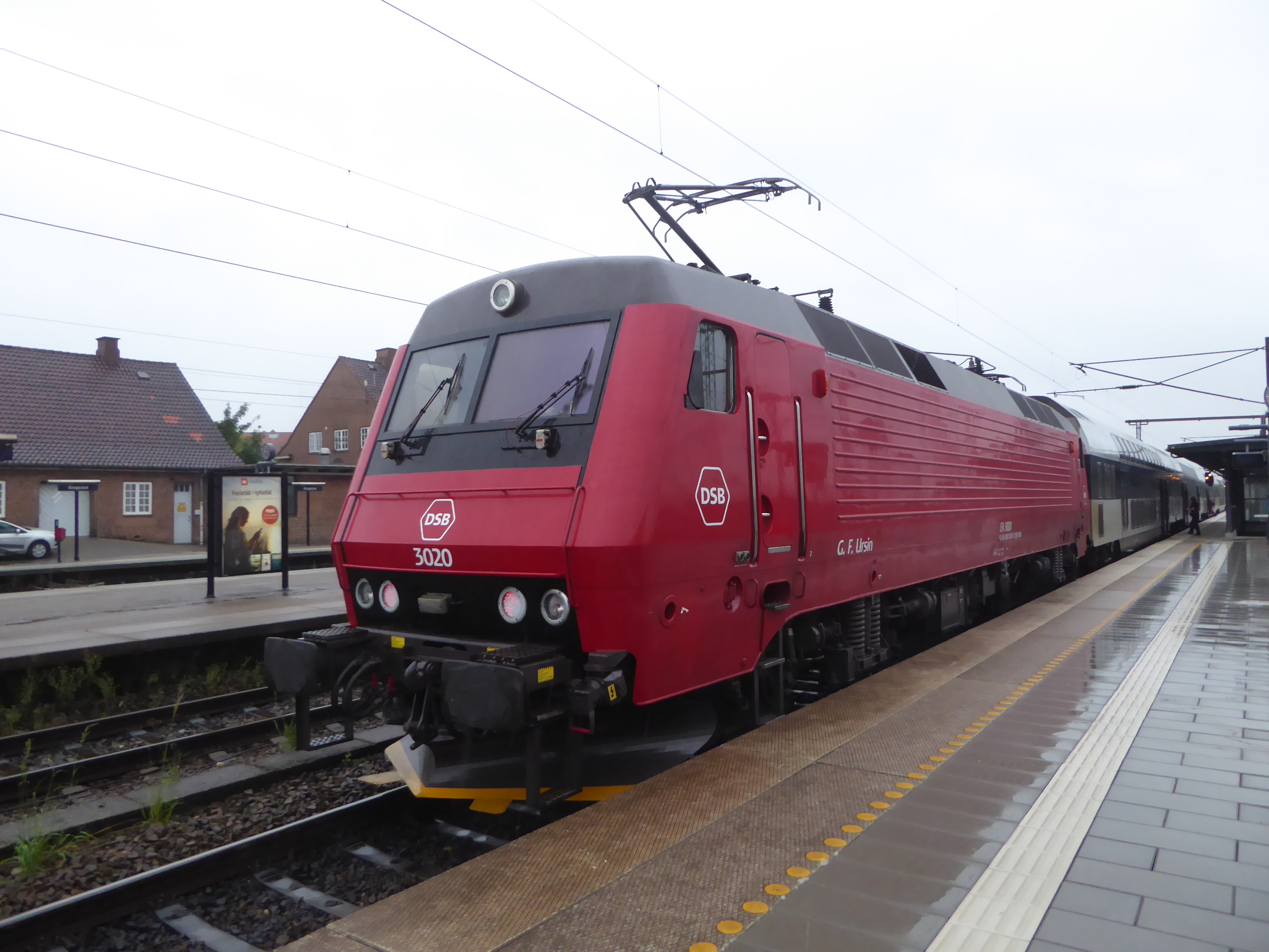 The electric locomotive DSB EA 3020 in the new red design at Ringsted Station in Denmark.